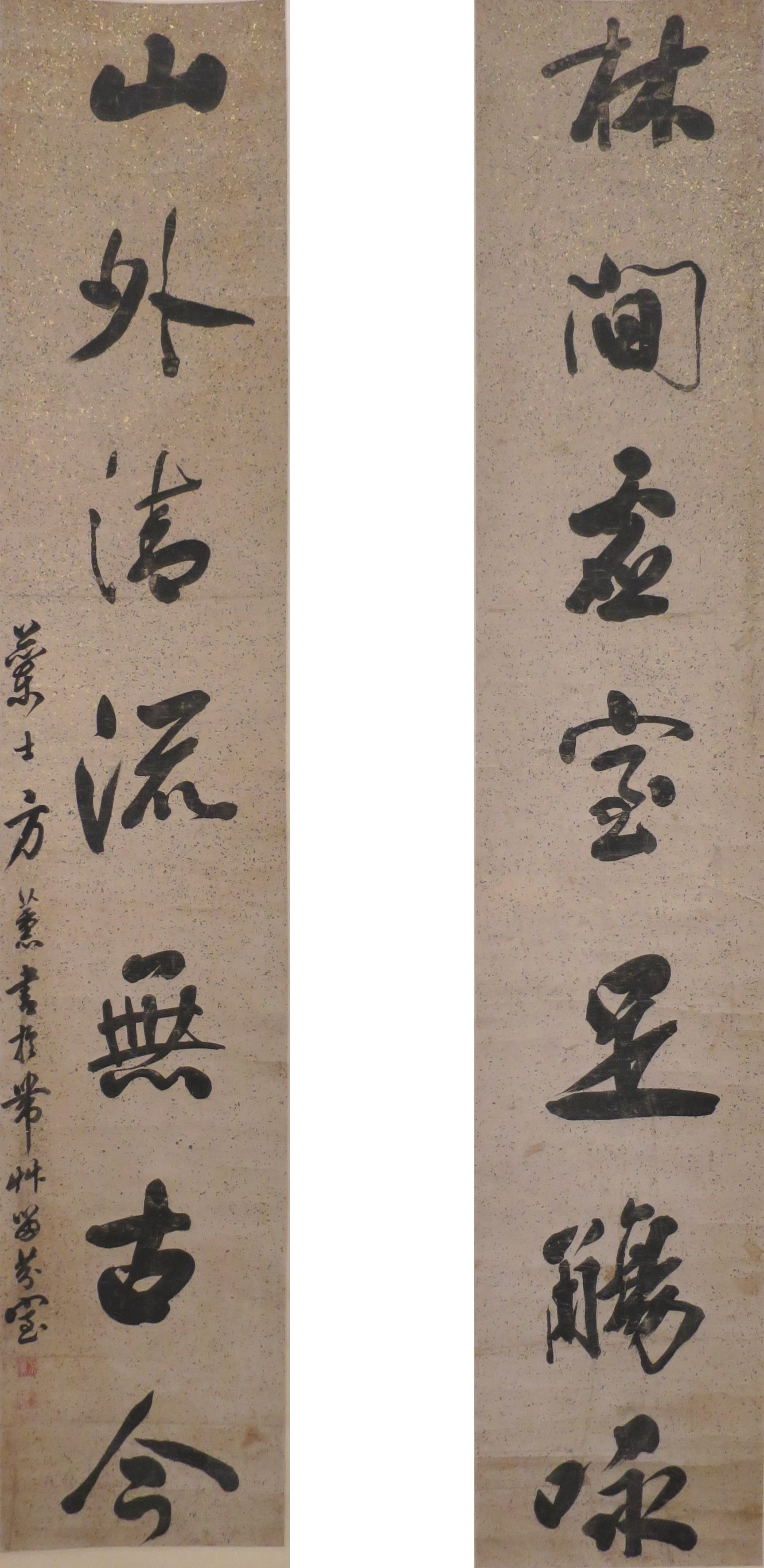 Calligraphy couplet by Fang Xun, 18th century, ink on gold-flecked paper, Honolulu Museum of Art, accession 5513.1-2